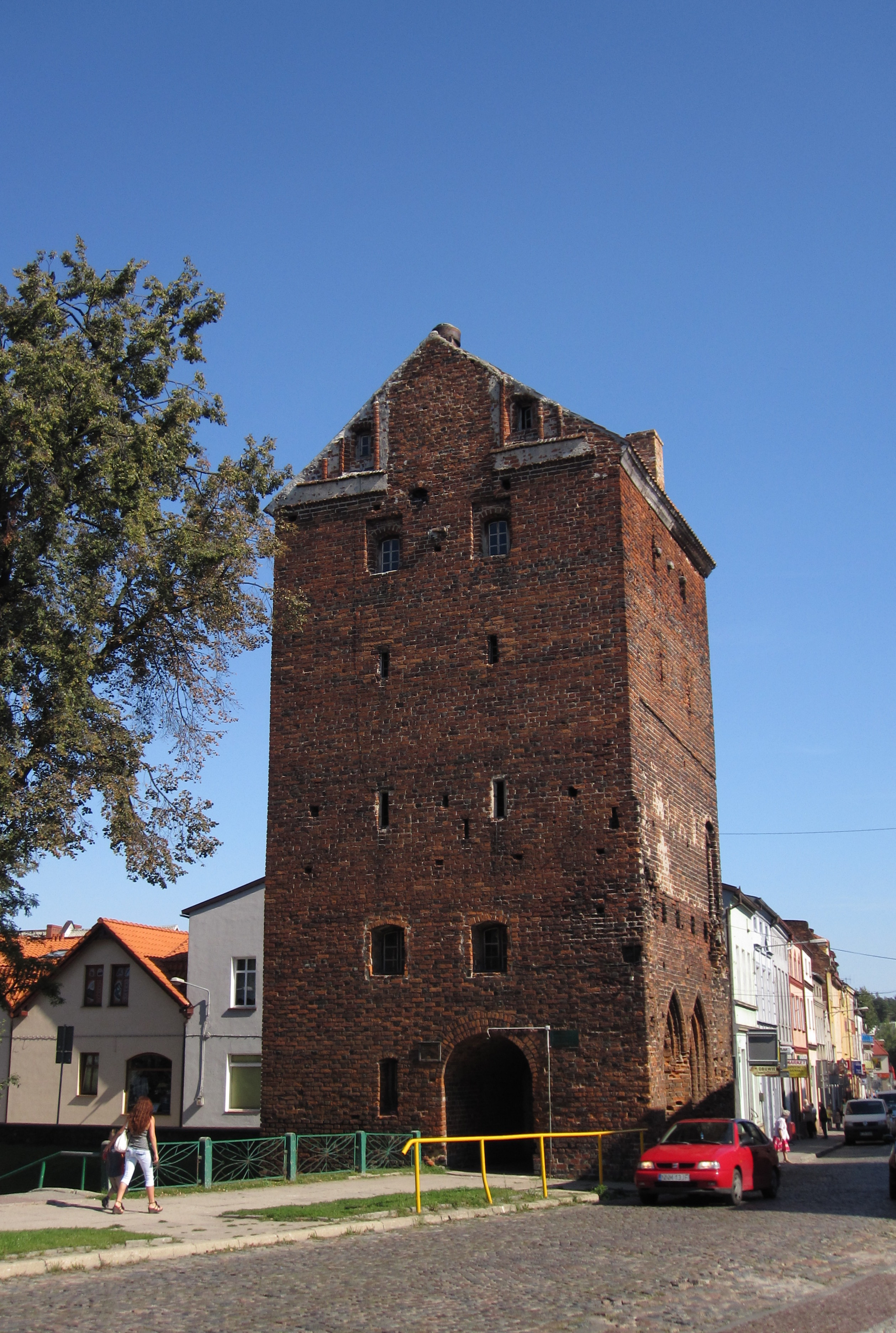 Nowe Miasto Lubawskie - Lubawska gate